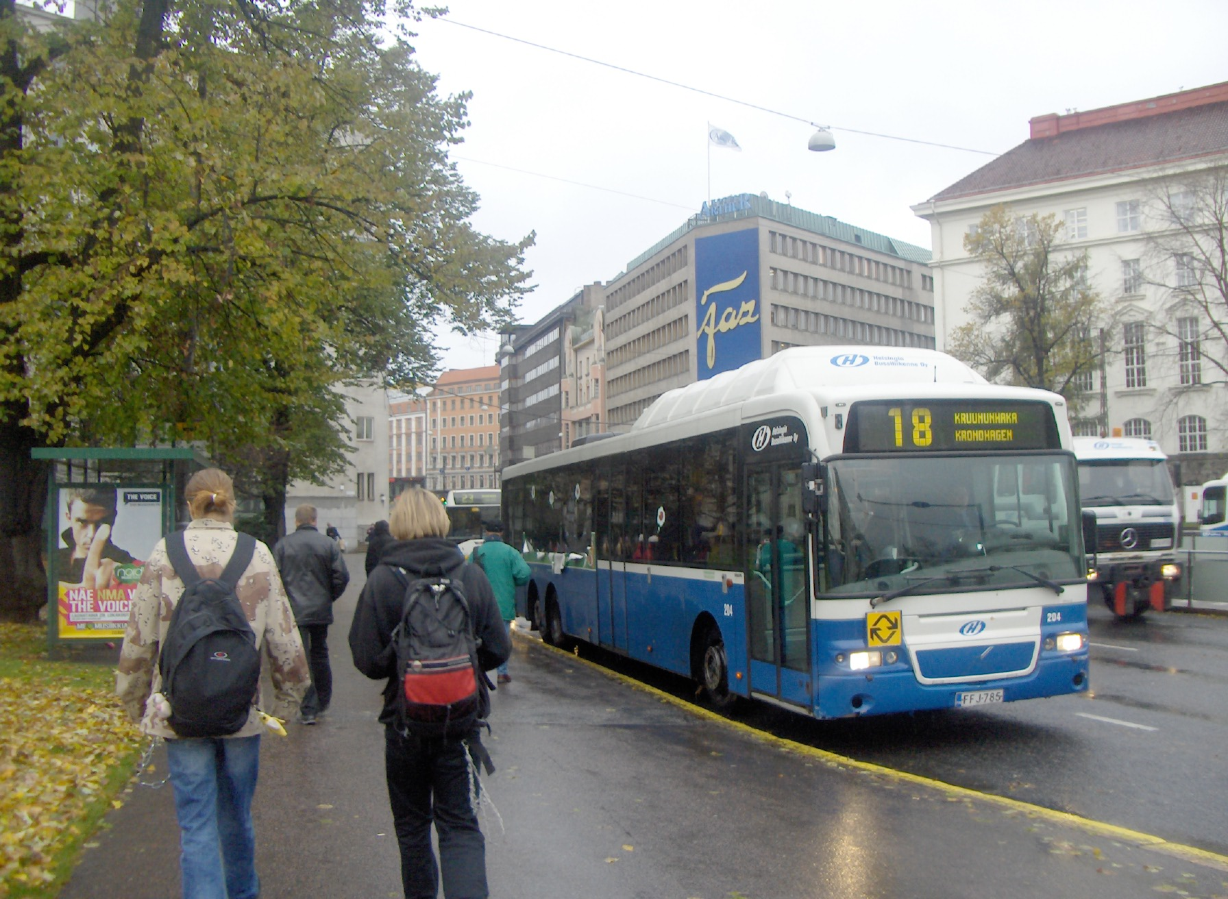 Volvo 8500 LE 6x2 CNG bus (reg. FFJ-785, #204) with Volvo B10BLE 6x2 CNG chassis (Säffle Karosseri Ab) in Helsinki, Finland. GH10C290 engine. Built 2002. Helsingin Bussiliikenne Oy operator.